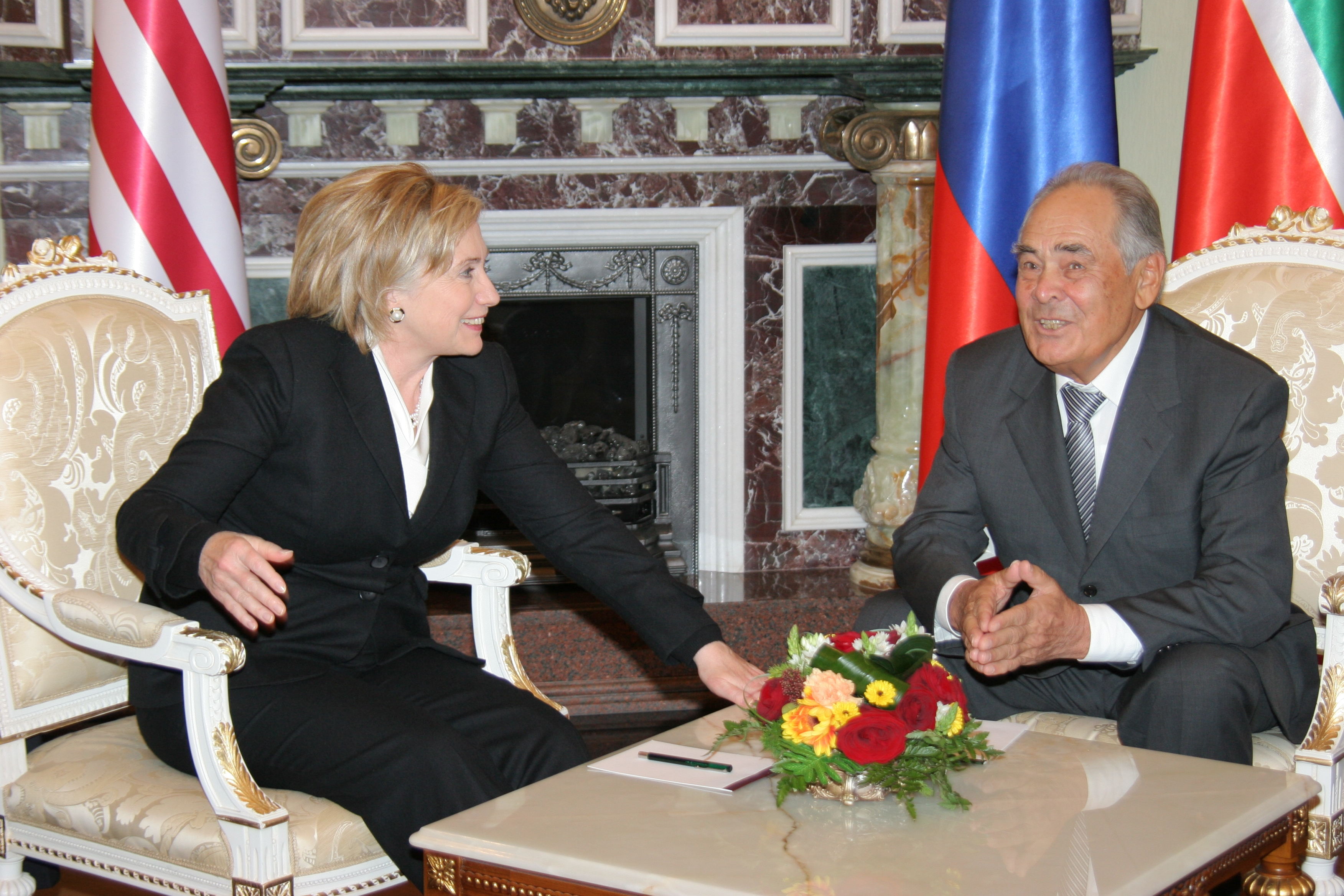 U.S. Secretary of State Hillary Rodham Clinton and President Shaimiev discuss diversity issues in Kazan, Russia October 14, 2009. [State Department Photo/Public Domain]